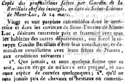 Beginning of the manifest from Gaudin-Bérillais, published in 1793, March 25th